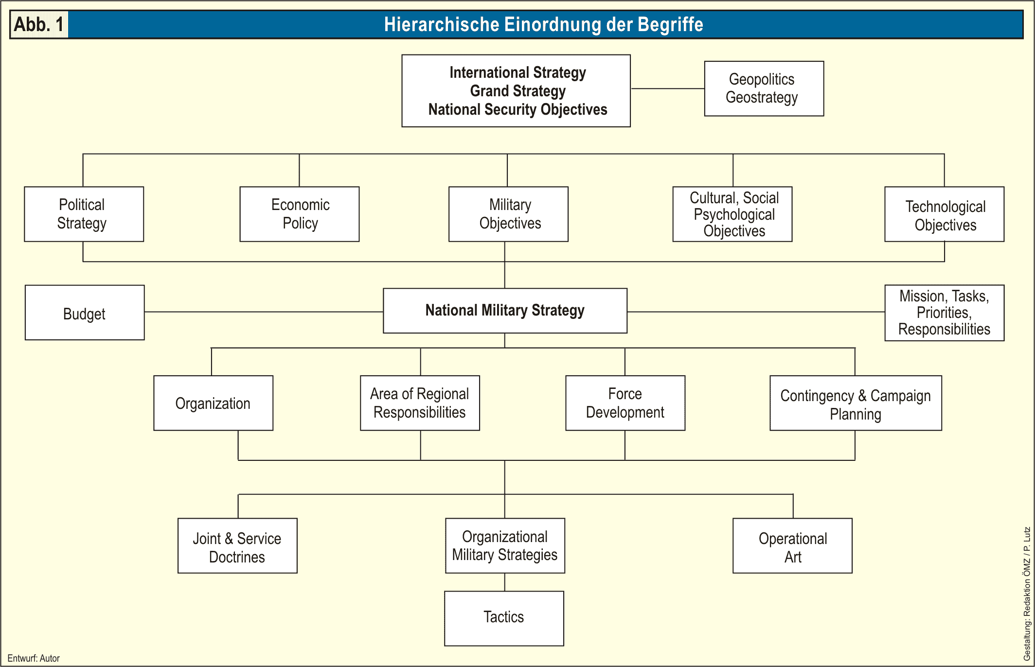 Hierarchic organization diagram of terms of the United States security policy